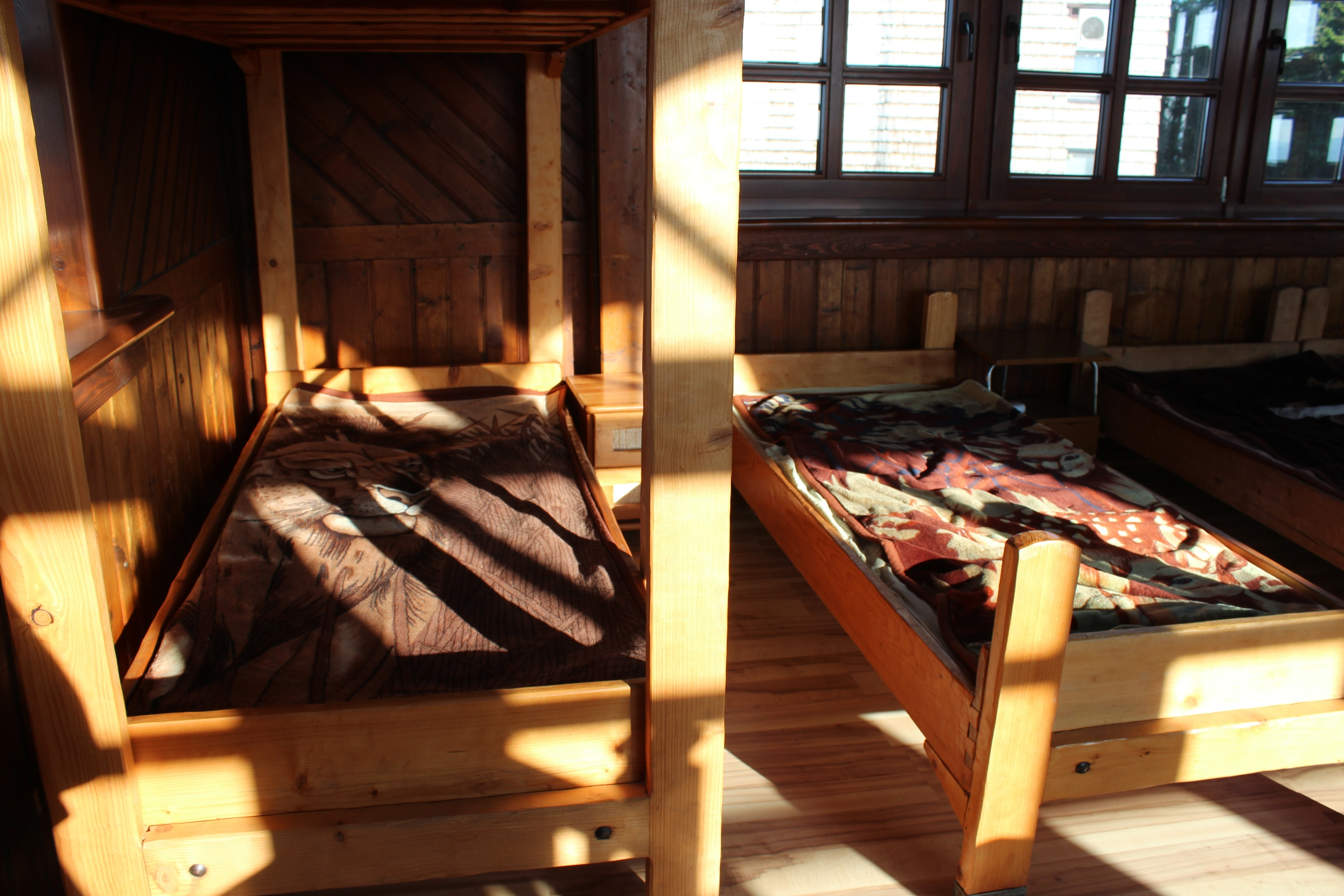 Luboń Wielki mountain hut